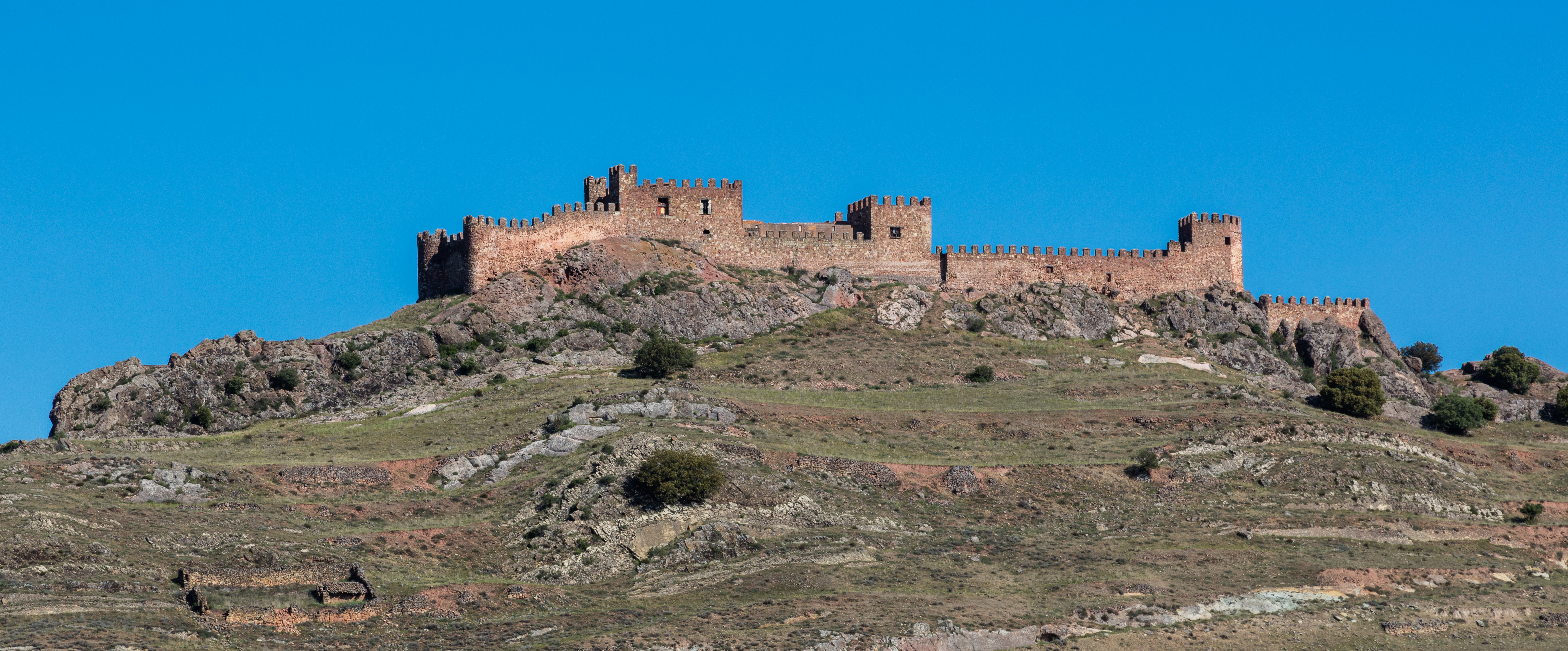 Castle, Riba de Santiuste, Guadalajara, Spain